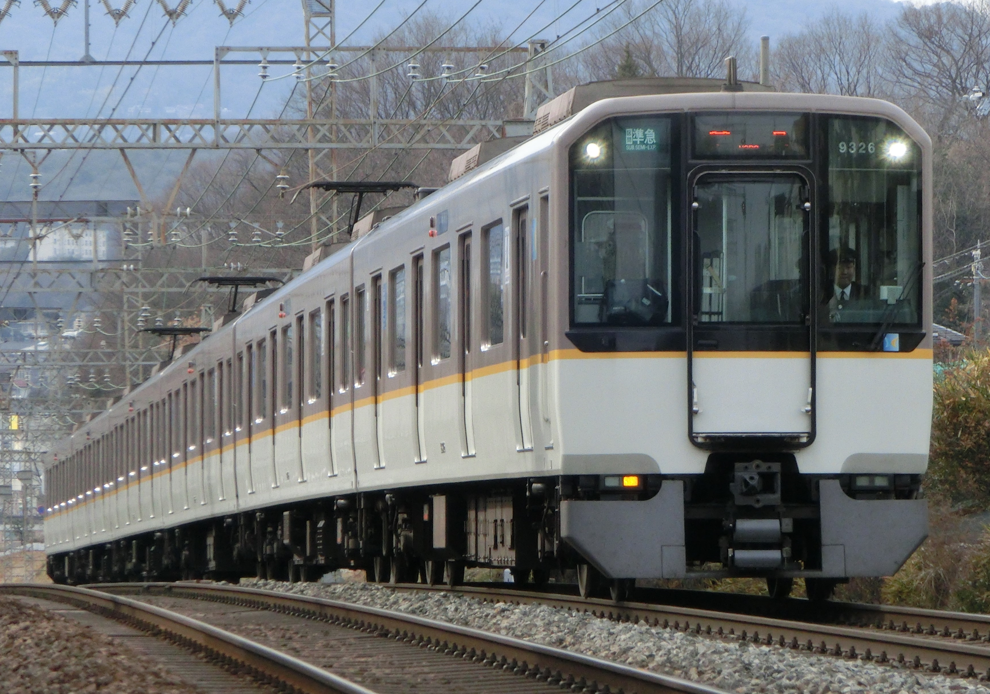 Kintetsu 9820 series EMU set 9826